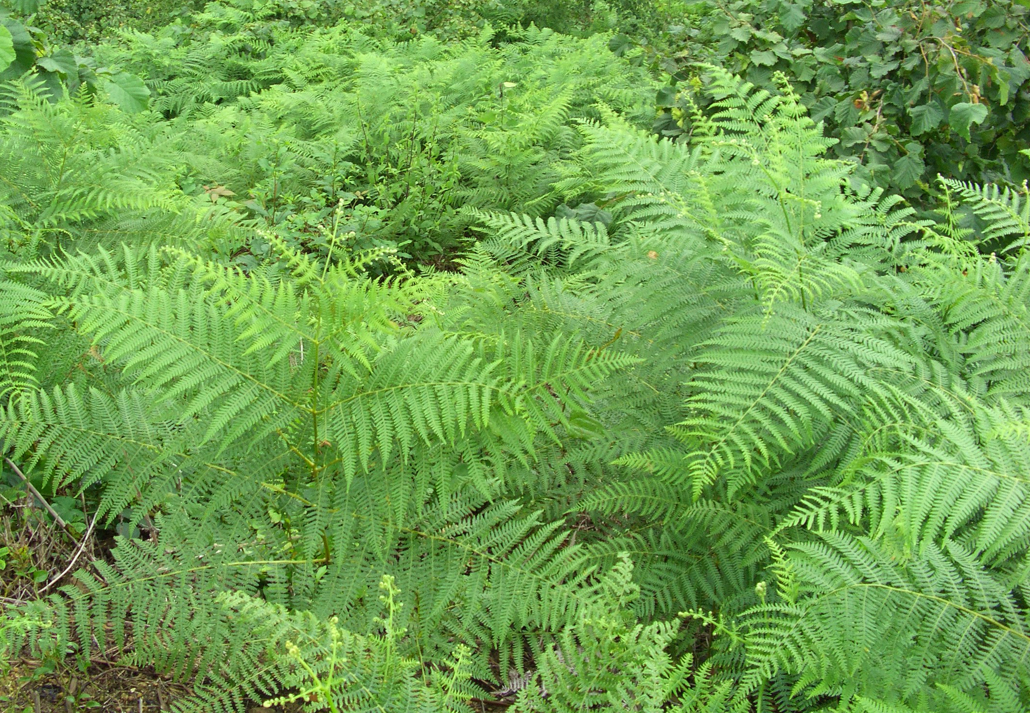 Bracken ferns (Pteridium aquilinum).